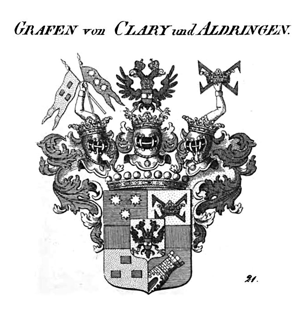 Coat of arms of Clary and Aldringen (Counts)